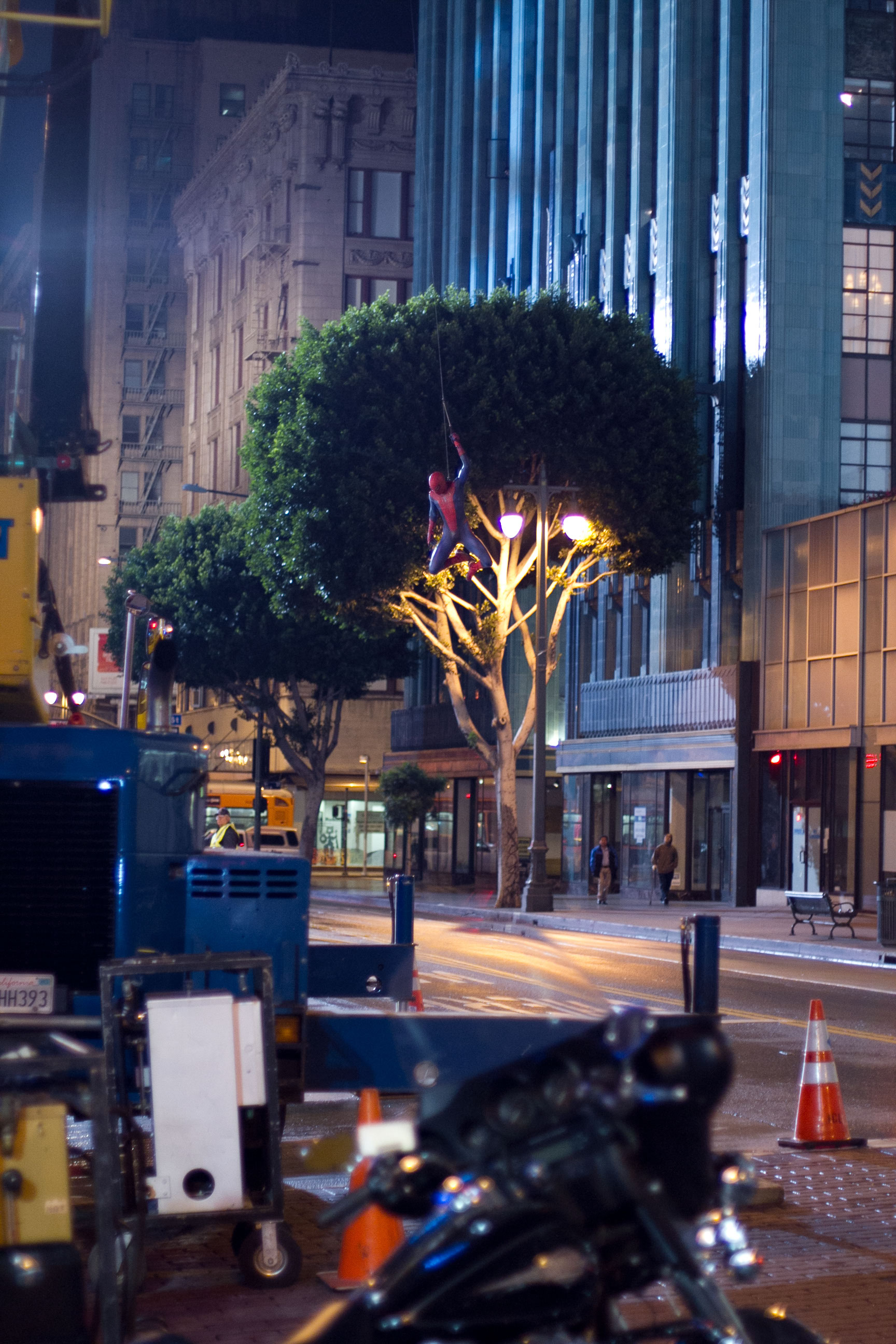 Scene of a filming set of The Amazing Spider-Man.